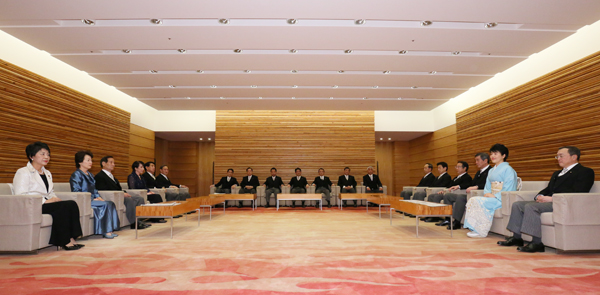 Shinzō Abe, Prime Minister, posed for the photo with Sanae Yamamoto, Yōko Kamikawa, Fumio Kishida, Tarō Asō, Hakubun Shimomura, Yasuhisa Shiozaki, Kōya Nishikawa, Yōichi Miyazawa, Akihiro Ōta, Yoshio Mochizuki, Gen Nakatani, Yoshihide Suga, Wataru Takeshita, Eriko Ogawa, Shun'ichi Yamaguchi, Haruko Arimura, Akira Amari and Shigeru Ishiba, Ministers of State, at the Prime Minister's Official Residence in Chiyoda Ward, Tōkyō Metropolis on December 24, 2014.